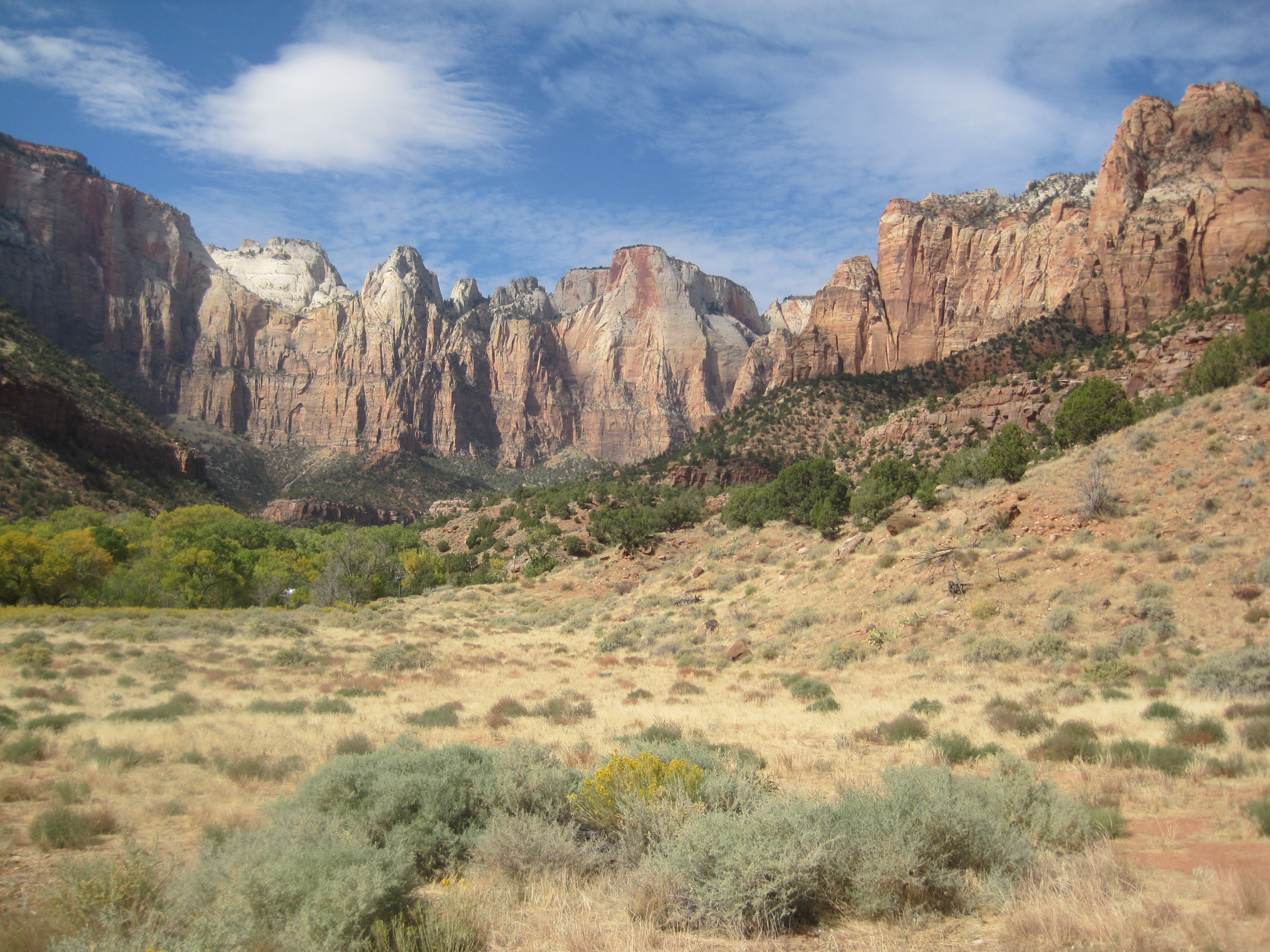 The Altar of Sacrifice (center of photo) has reddish blood-like streaks which appear to be coming from its cap